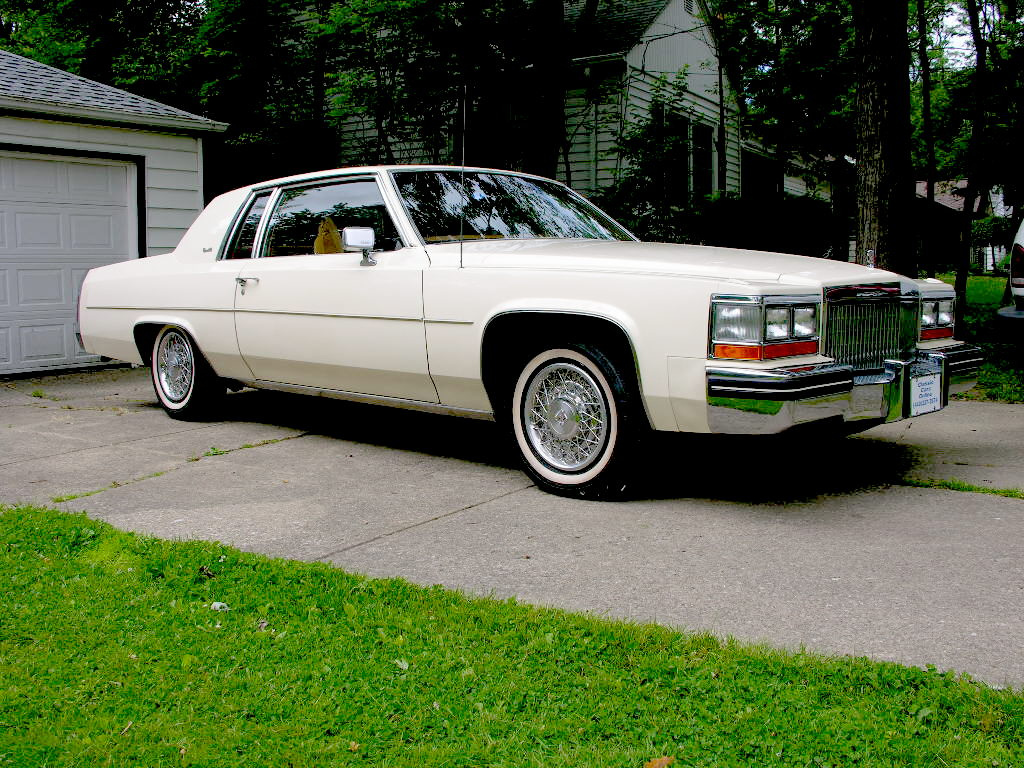 This 30,000 mile example is a base model with no options. None! I'm going to venture a guess that the wire wheelcovers were added by the dealer.